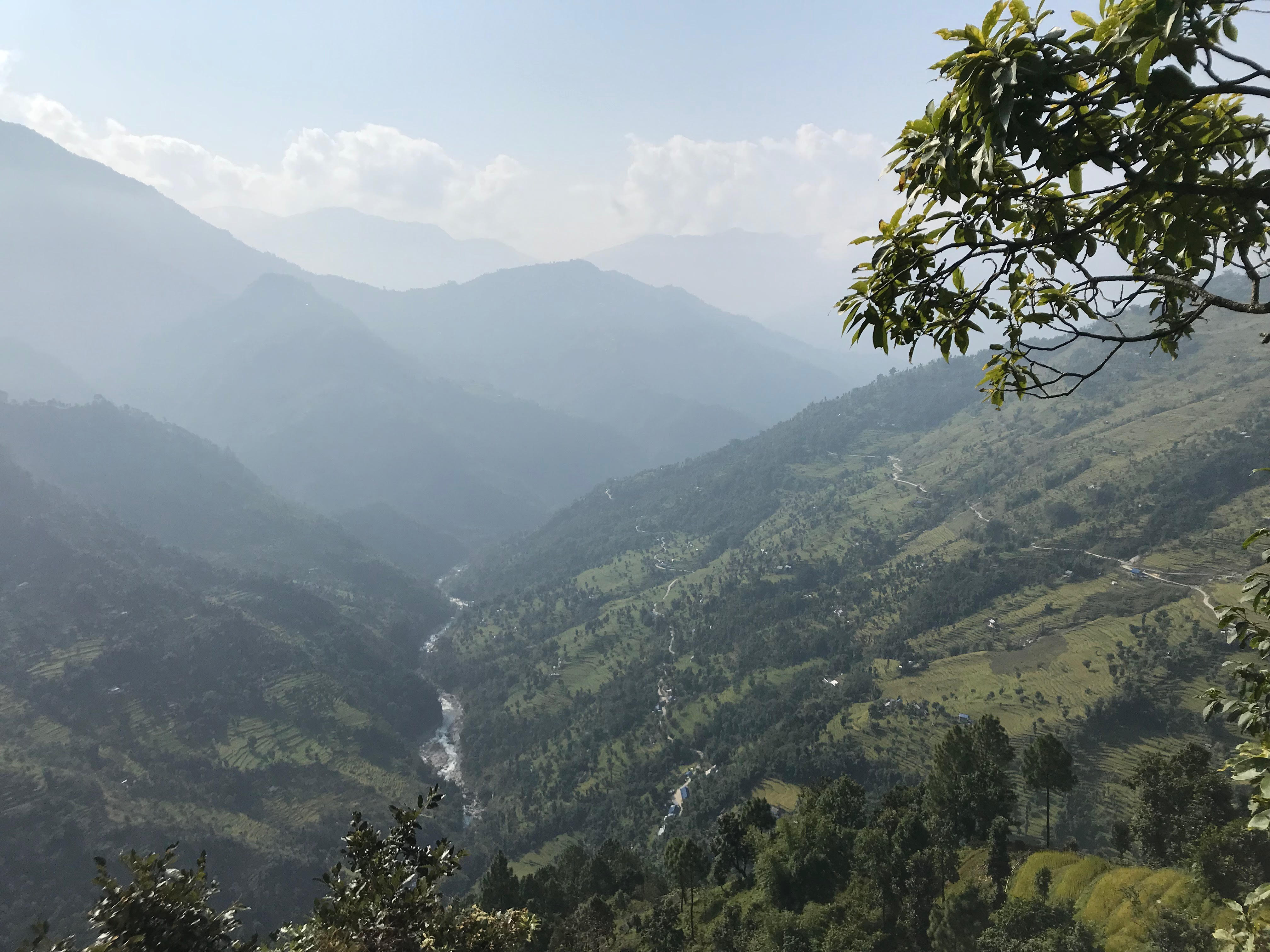 A valley in Ambegudin, Taplejung District, Eastern Nepal.